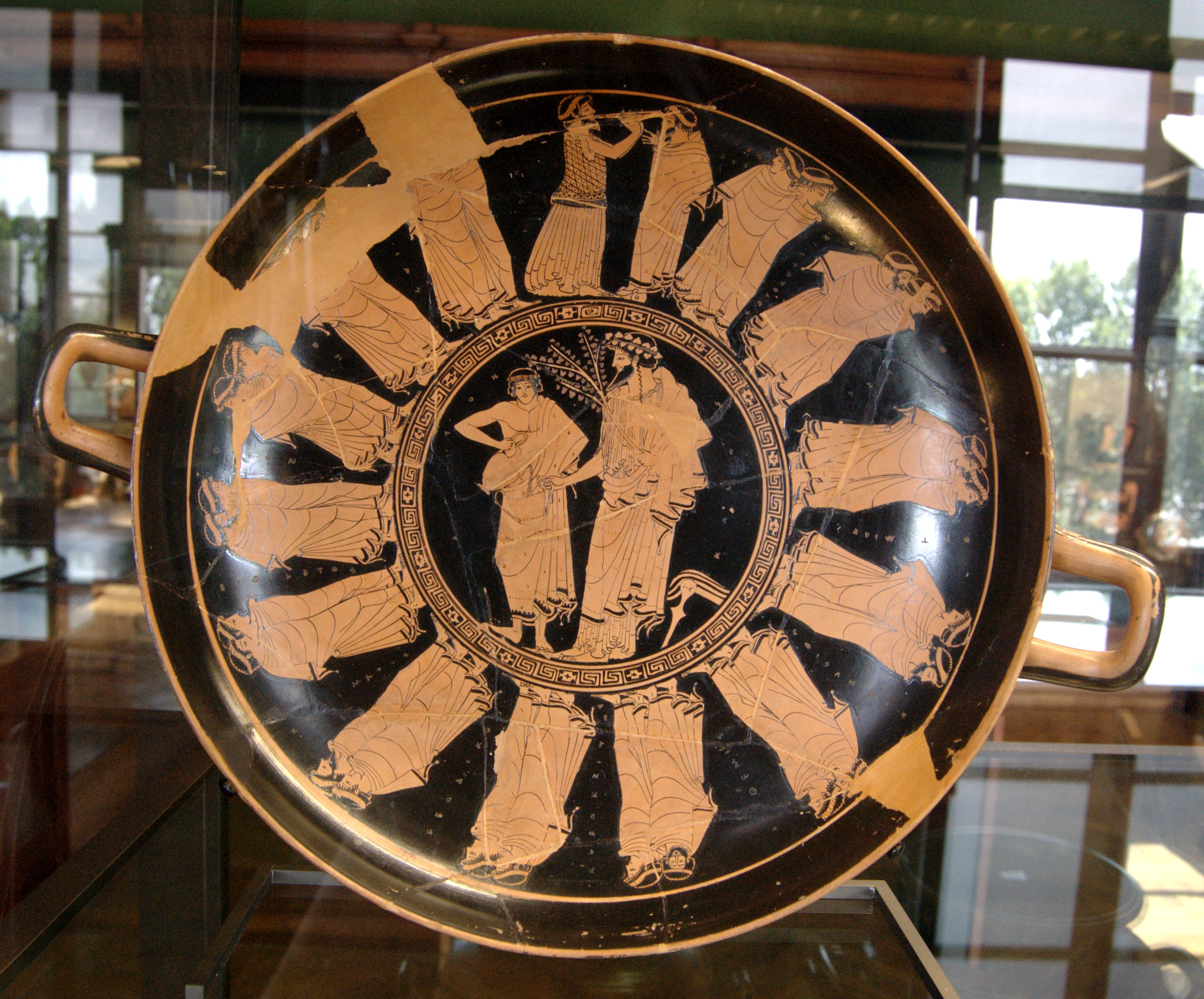 Procession of male couples (Apaturia's feast?); tondo: youth pouring wine with an oinochoe in Dionysos' kantharos. Attic red-figure kylix, ca. 480 BC.